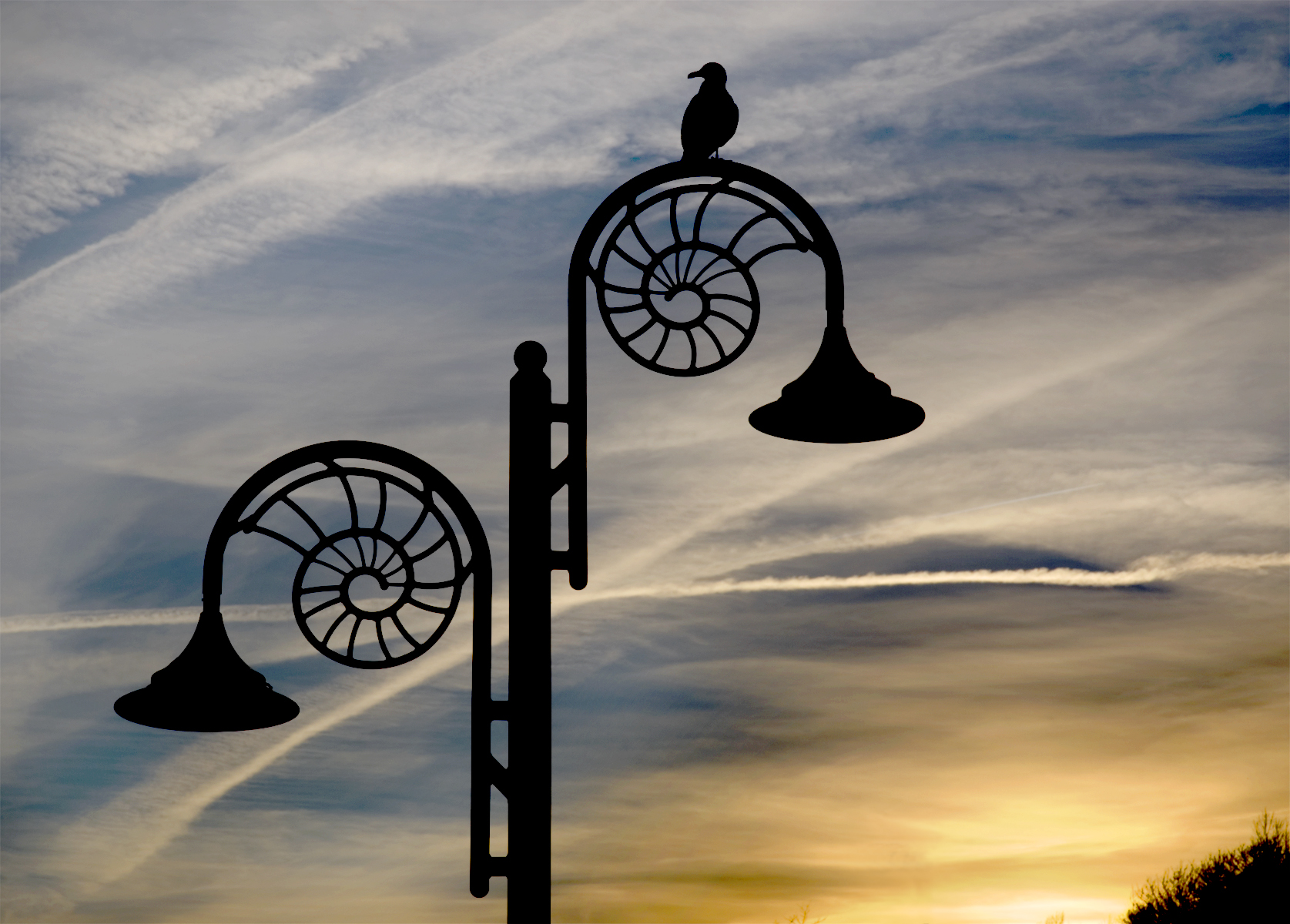 Dusk on the Marine Parade, Lyme Regis, Dorset, UK. The ammonite-design streetlamps reflect the town's location on the Jurassic Coast, a World Heritage site. The bird is a herring gull, Larus argentatus.